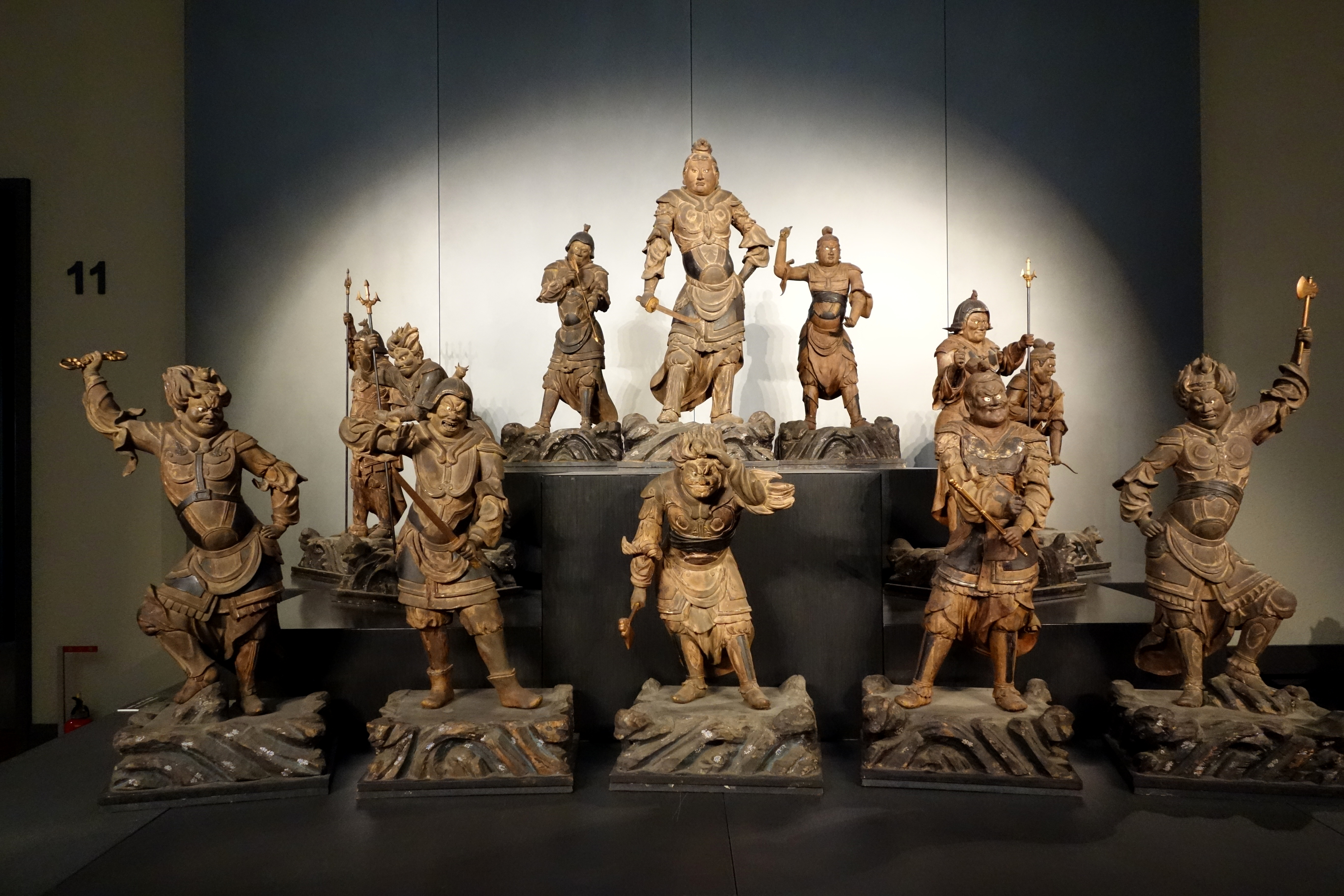 Exhibit in the Tokyo National Museum, Tokyo, Japan. This artwork is old enough so that it is in the public domain.